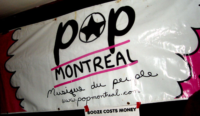 2005 Pop Montreal festival banner in a Montreal venue.